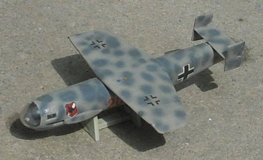 Heinkel P.1077 Julia model picture (more pics of the Julia and Romeo can be found now on